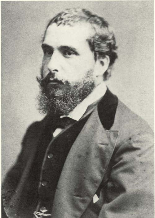 Claude Monet